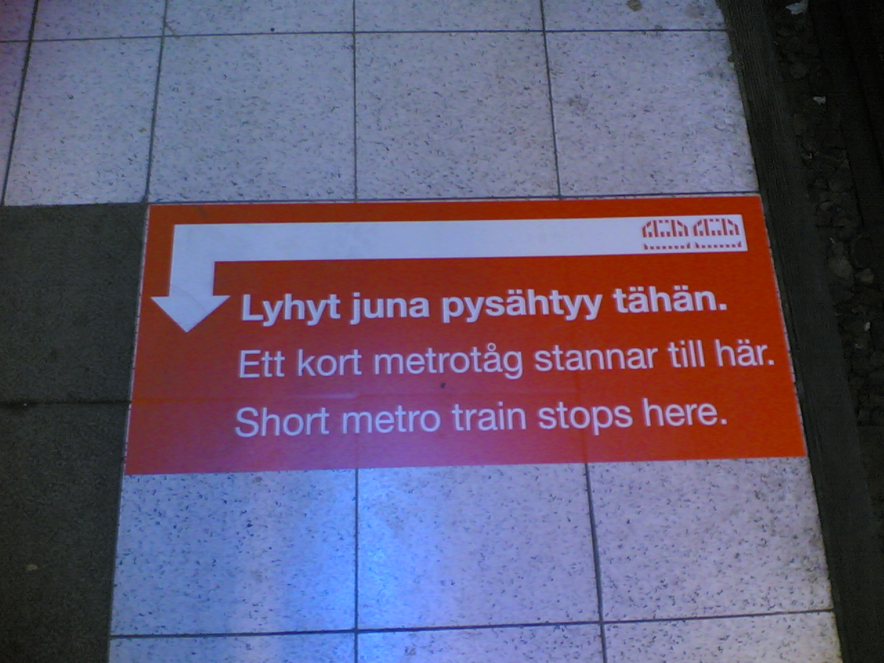 A marking on the floor of Puotila metro station in Helsinki, Finland, specifying the place where a short metro train will stop